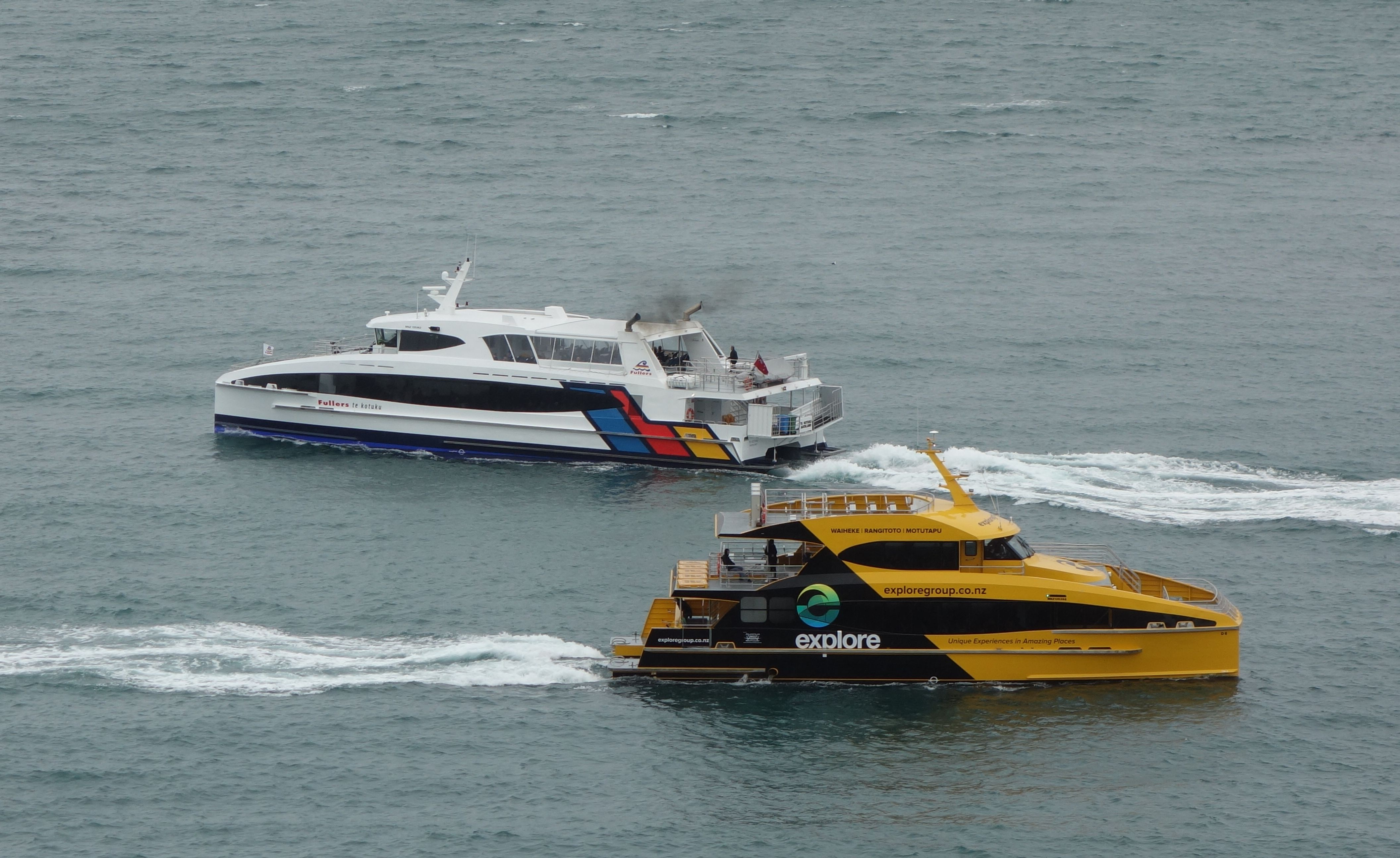 Explore Group and Fullers ferries meeting near Matiatia Wharf.